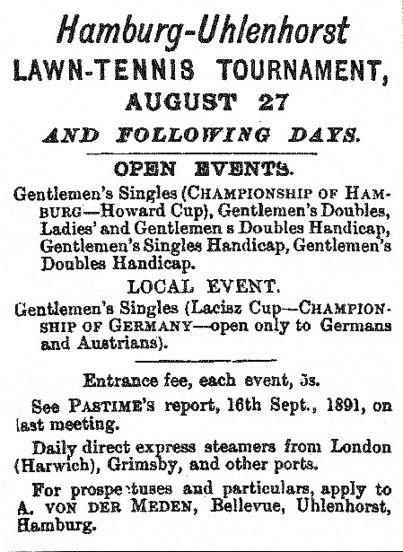 Advertisement for the first staging of the German Tennis Championships in 1892. Published in the English newspaper "Pasttime"